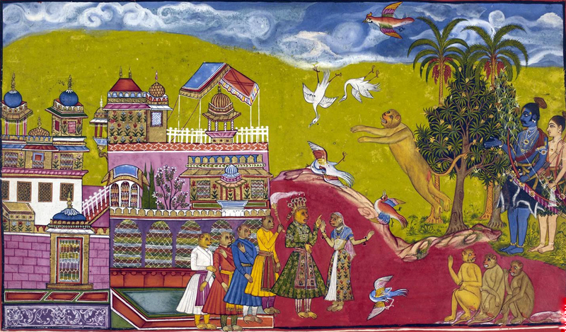 An illustration from a 17th-century copy of the Ramayana in the collection of the British Library: "Outside the palace of Kiskindha, Sugriva roars out his challenge to his usurping brother Bali, so that the very birds fall out of the sky in fright, while Rama and Laksmana and the other monkeys look on from the right. On the left is the monkey king's palace, from which Bali, his queen Tara and ministers have emerged on hearing the uproar. Tara advises him not to fight, but to no avail. Bali and his party all wear human costume, except for turbans, while Bali himself wears a crown."